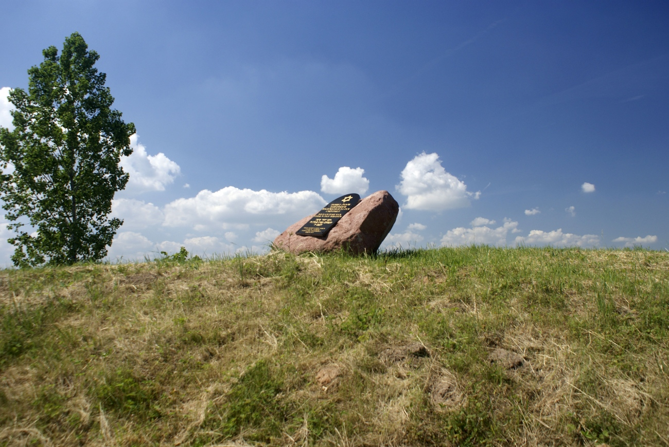 Jewish cemetery in Barcin.